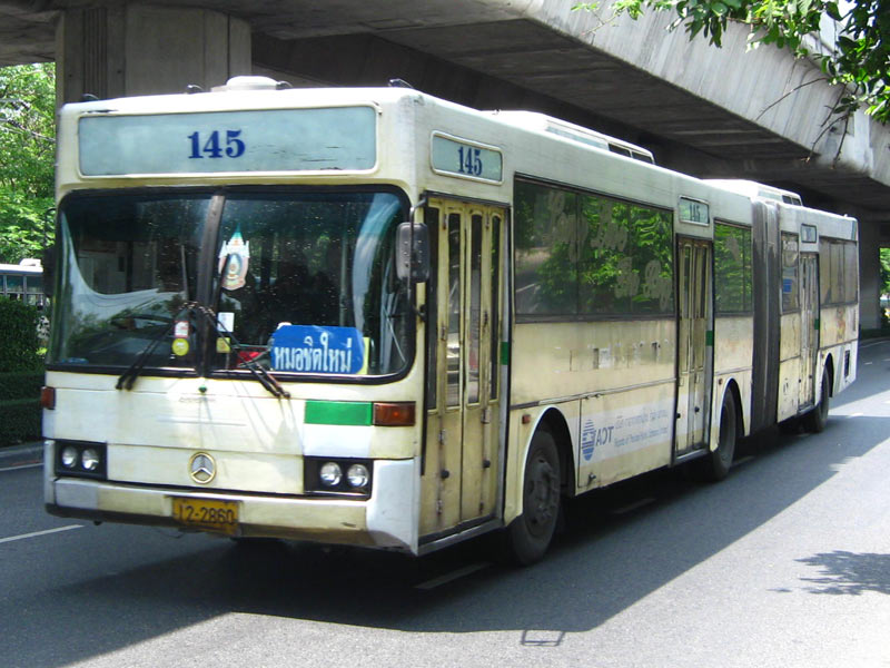 Benz bus in BMTA / Bangkok, Thailand